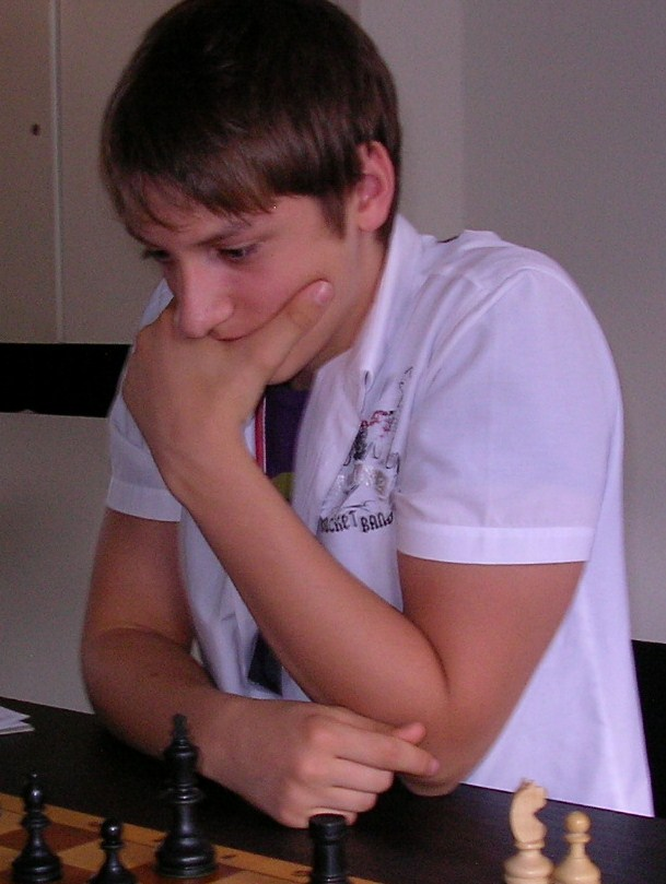 Jens Kotainy, Dortmunder Schachtage 2010, Photographer Gerhard Hund.